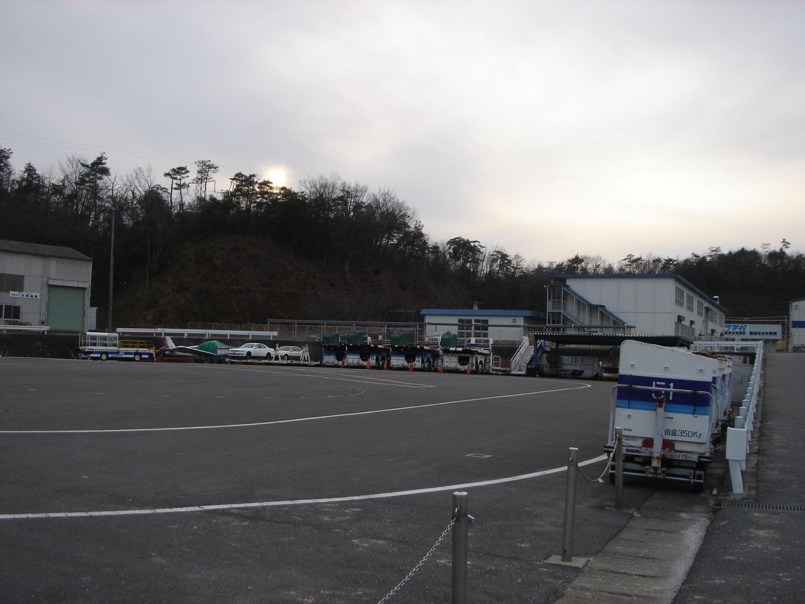 College_of_Nakanippon_Aviation(中日本航空専門学校),Seki,Gifu,Japan(岐阜県関市迫間)で撮影。